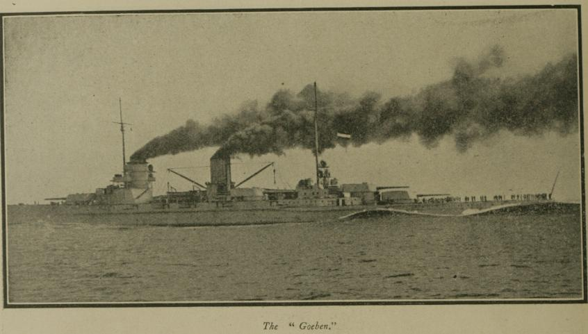 WWI Photograph